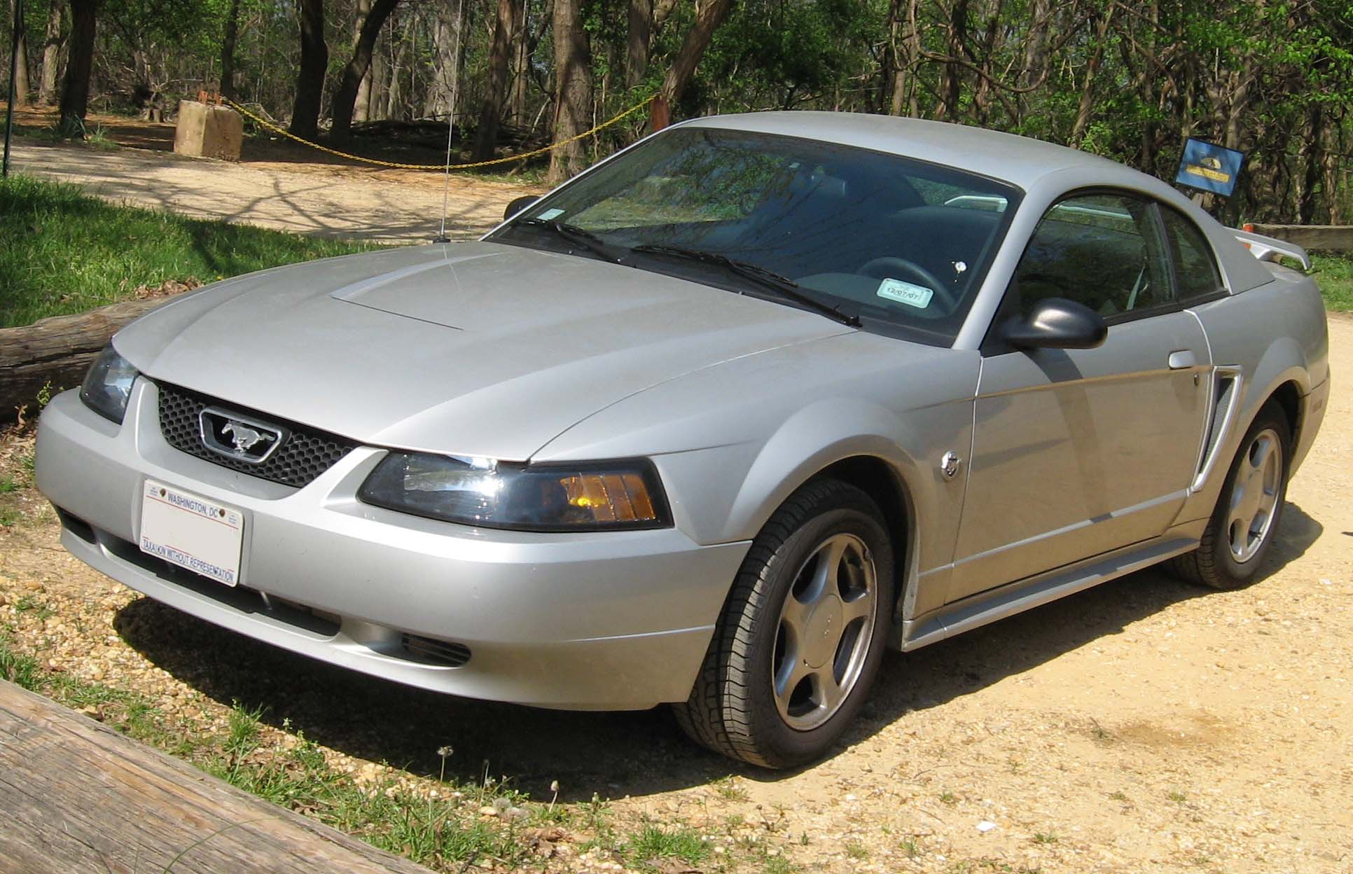 1999-2004 Ford Mustang photographed in USA.